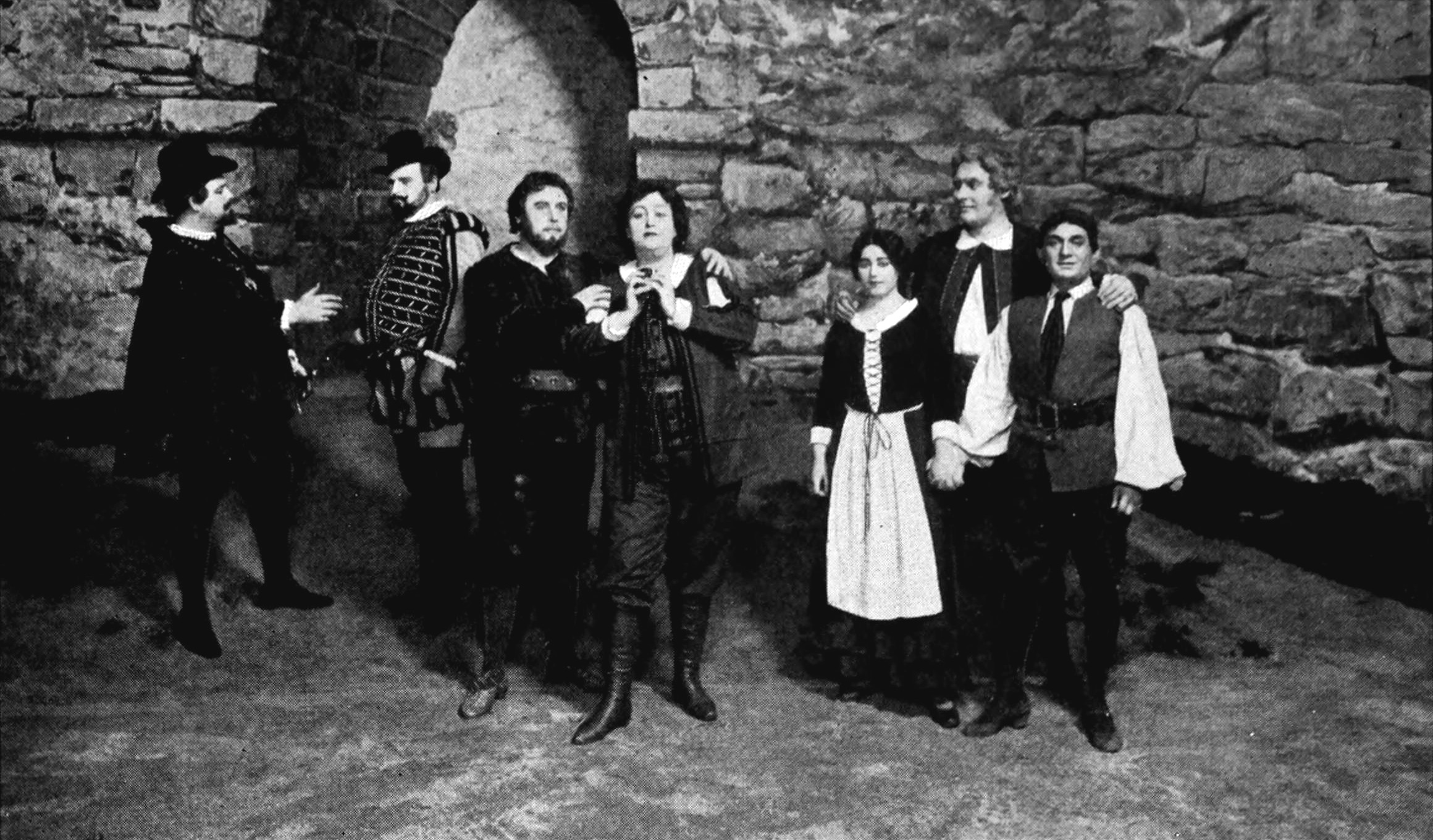 Beethoven - Fidelio - The Metropolitan cast of 1913 - Photo White Title: The Victrola book of the opera : stories of one hundred and twenty operas with seven-hundred illustrations and descriptions of twelve-hundred Victor opera records Year: 1917 (1910s) Authors: Victor Talking Machine Company Rous, Samuel Holland Subjects: Operas Publisher: Camden, N.J. : Victor Talking Machine Co. Text Appearing Before Image: 68061 12- 16536 10- inch, $1.25 inch, 1.00 inch, 1.25 inch, 1.25 inch, 1.25 inch, .75 inch, .75 \ Manon—Et je sais votre nom* Double-Faced Record—See above list. Korsoff and Beyle (In Frenc) 62659 10-inch, .7516551 10-inch, .75 152 Text Appearing After Image: PHOTO WHITE THE METROPOLITAN CAST OF 1913 FIDELIO (Fee-day-lee-oh) Opera in two acts, adapted by Sonnleithner from Bouillys Leonore, ou IAmour Conjugal.Music by Beethoven. First produced at Vienna, November 20, 1805. Given in LondonMay 18, 1832. In Paris at the Theatre Lyrique, translated by Barbier and Carre, and in threeacts, May 5, 1860. First American performance in New York, September 9, 1839, withGiubilei, Manvers and Poole. Other notable productions in 1858, with Mme. Caradori andKarl Formes; in 1868, with Mme. Rotter, Habelmann and Formes; at the New OrleansOpera, in Italian, December 11, 1877 ; the Damrosch production of1884, with Brandt, Belz and Koegel; the Metropolitan performancesin 1901, with Ternina as Leonore; and the revivals of 1913 and 1917.